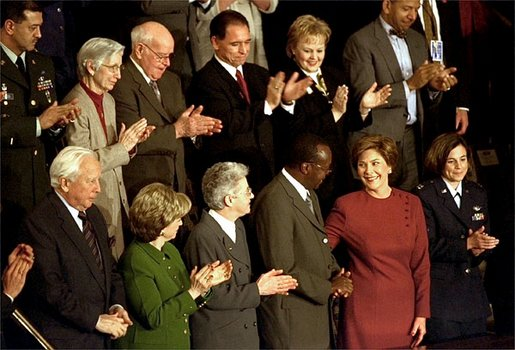 Henry Lozano stands applauding behind First Lady Laura Bush. He was invited to sit as an honored guest in the First Lady's box at the President's 2003 State of the Union address.